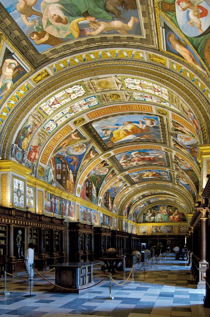 Library of Royal Monastery of San Lorenzo del Escorial This photograph can be used for publications, including this copyright statement: “©PromoMadrid, author Max Alexander”. Esta fotografía puede usarse en publicaciones, incluyendo la declaración “©PromoMadrid, autor Max Alexander”.